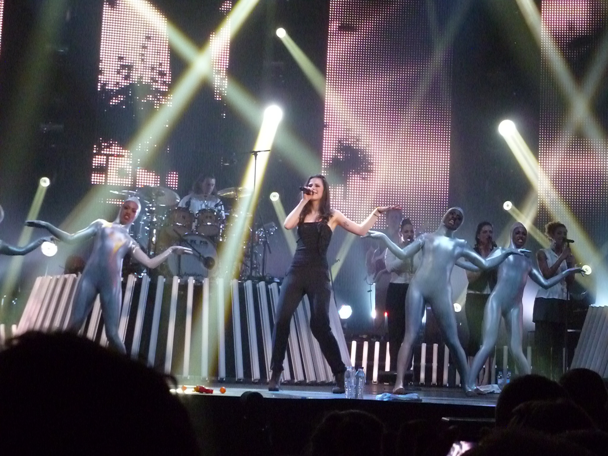 Lena Meyer-Landrut performs 'Taken By A Stranger' on stage of Festhalle in Frankfurt during Lena Live-Tour 2011